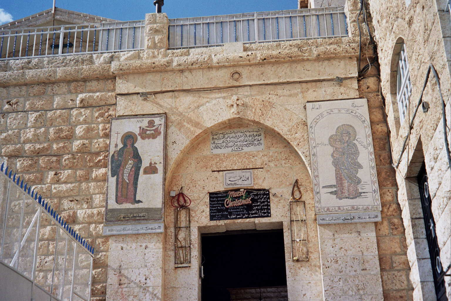 the cheesy sign hanging over the entrance to the monastery of st. sergius. keep in mind this photo was taken in september.